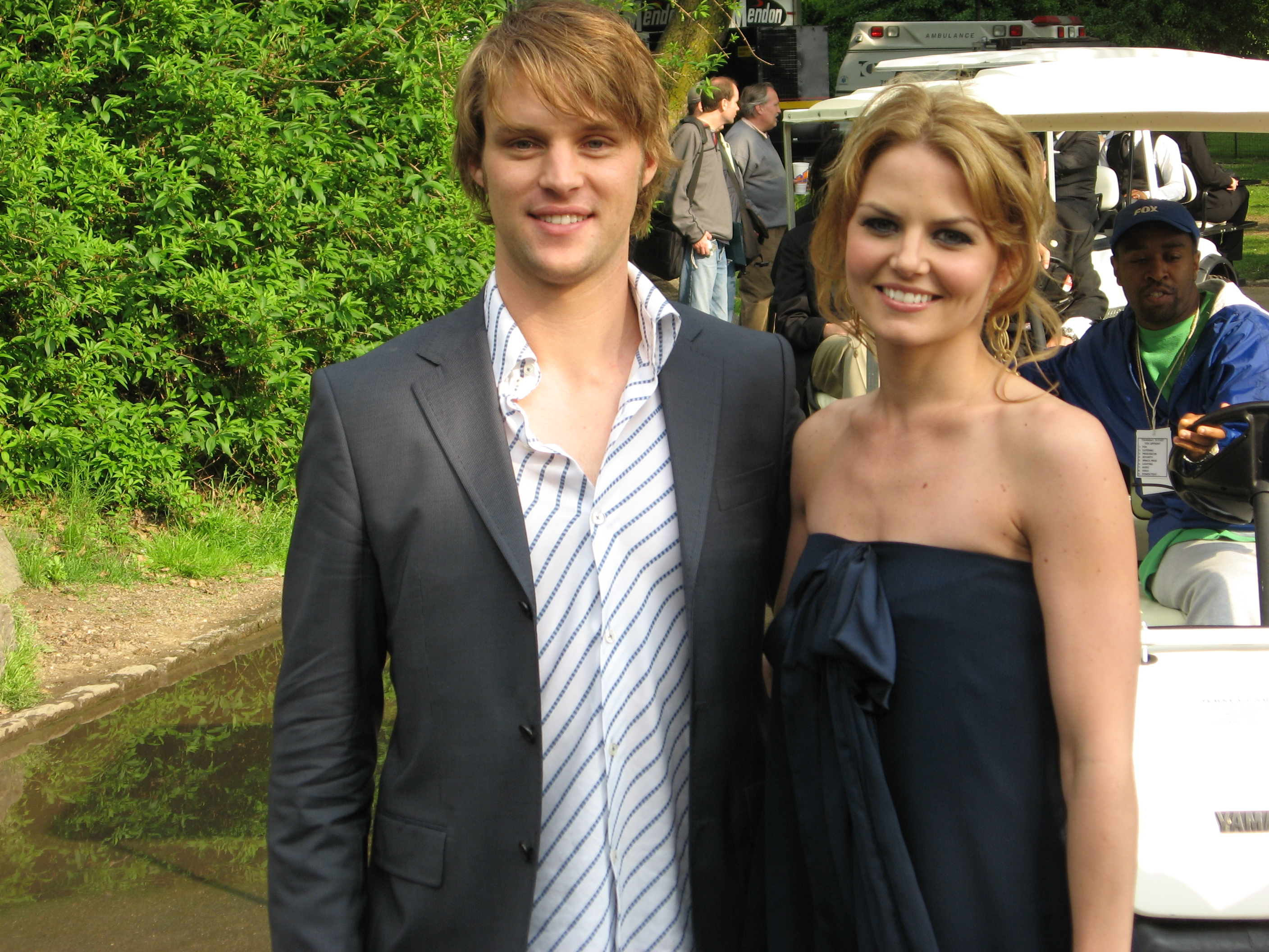 Jesse Spencer and Jennifer Morrison at Fox Upfronts 2007.